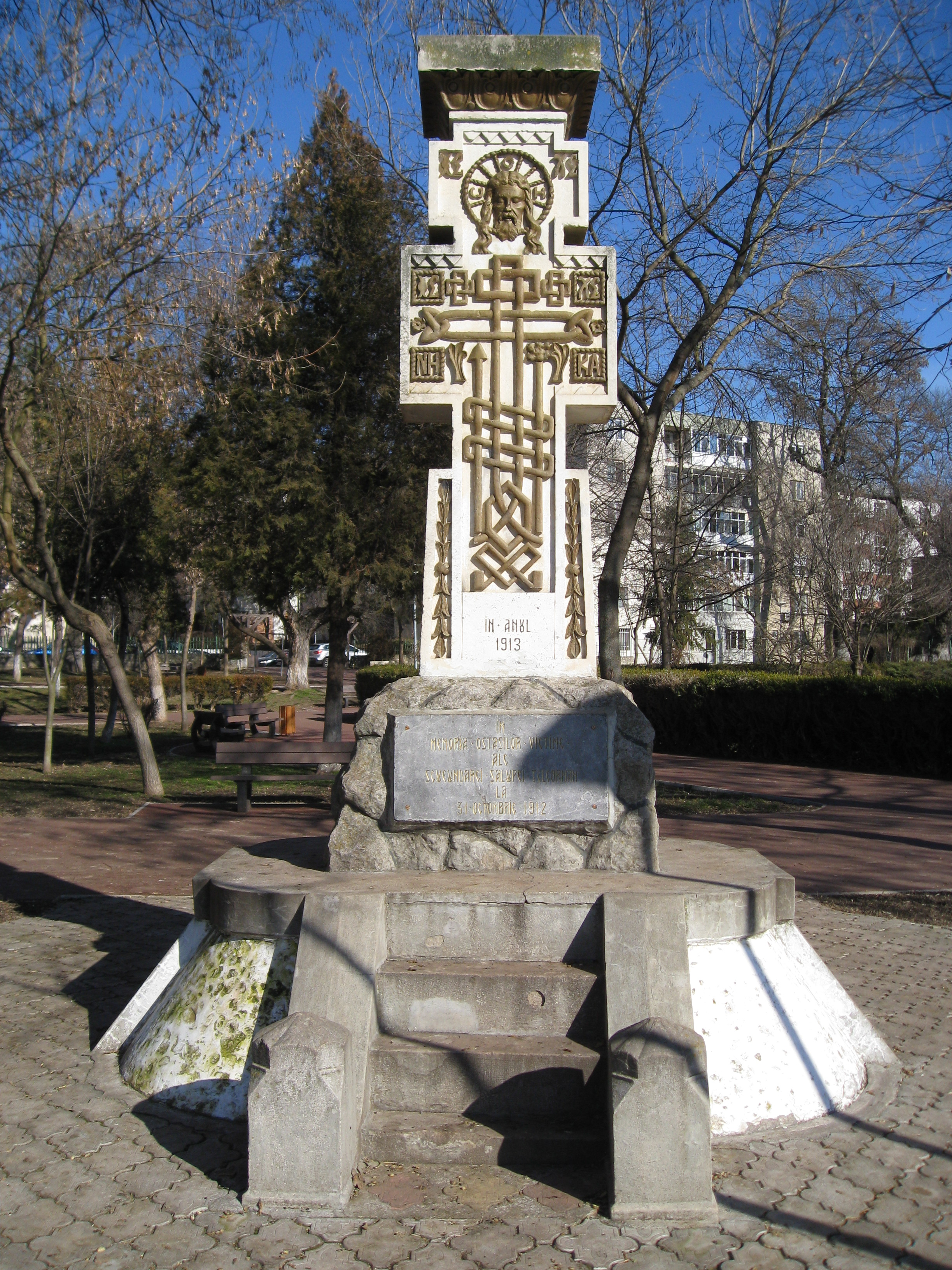 Monument to the sinking of the boat Teleorman, in Călărași, Romania